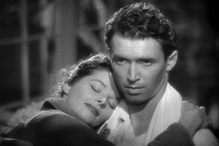 James Stewart and Katharine Hepburn in The Philadelphia Story trailer